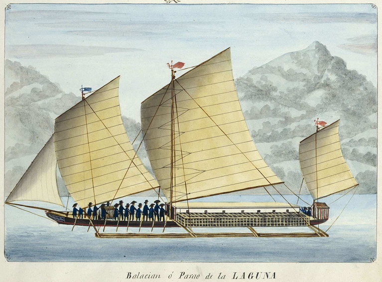 Balación, a native outrigger sailboat of Laguna, Philippines